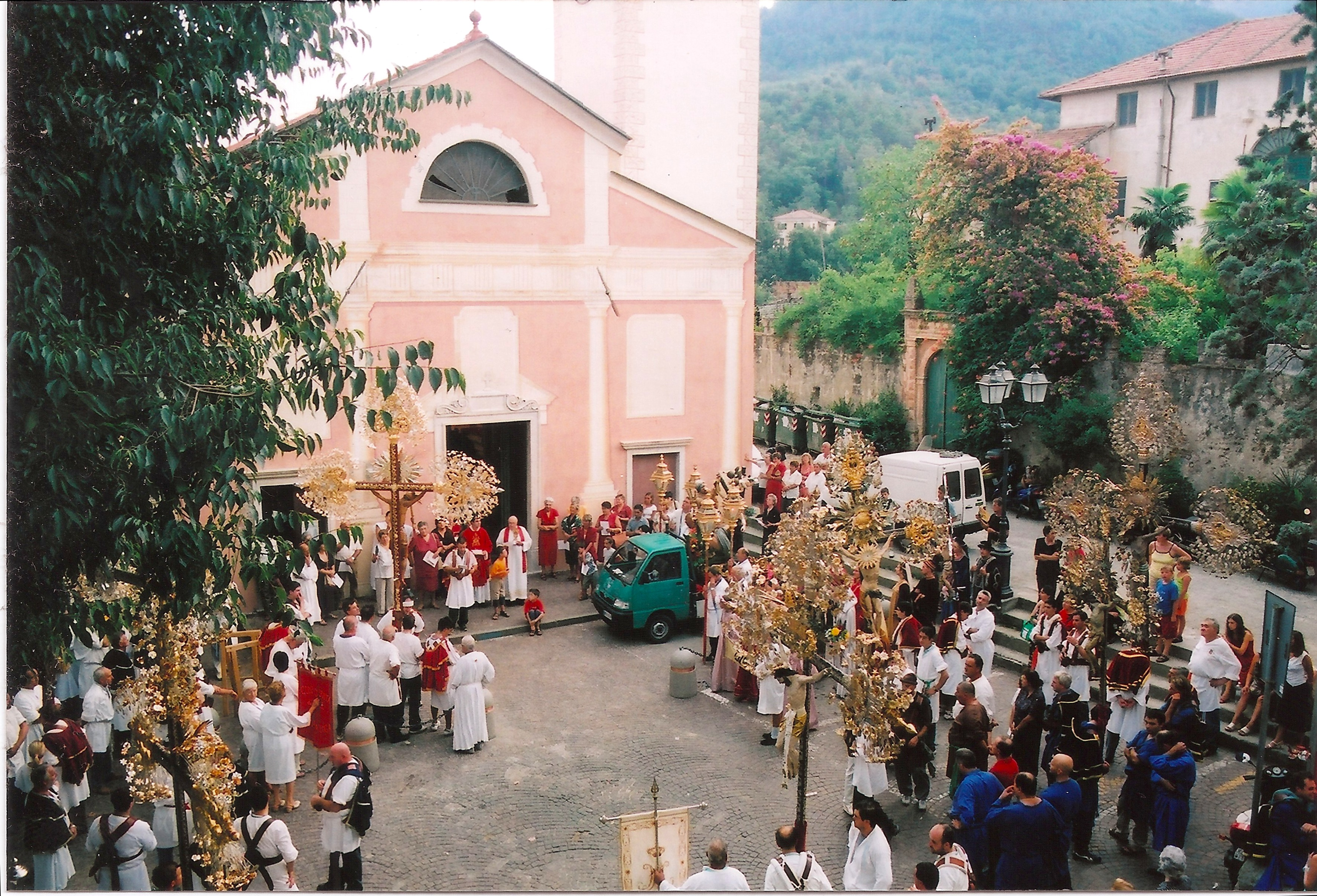 Procession of San Bartolomeo, Sunday 24 August 2003, at the time of the Eucharistic blessing, in Piazza della Chiesa in Lusignano